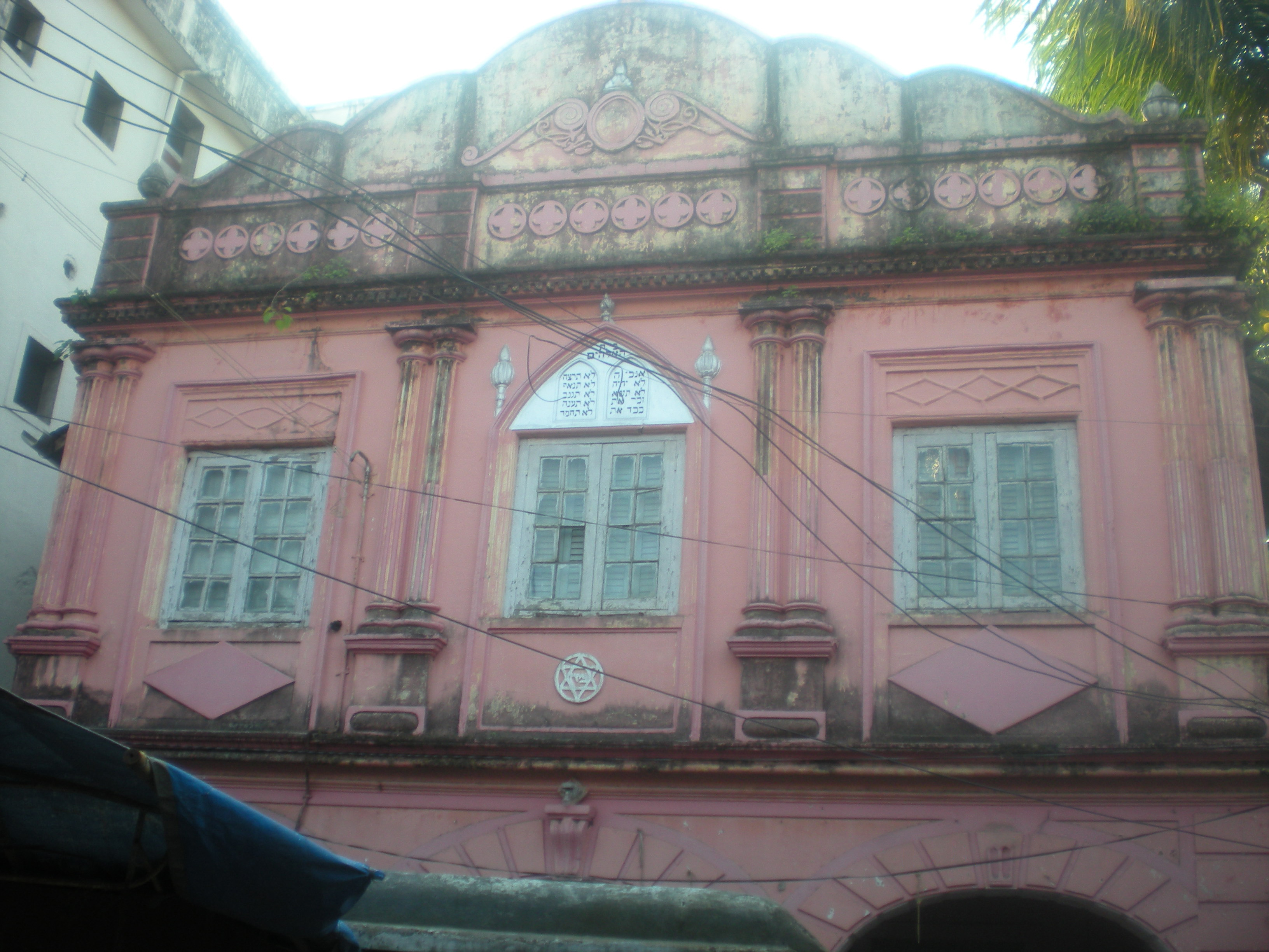 Bene Israel Beth-ha-Elohim synagogue, opposite Saifee Stores, Bazar Peth, Pen. District Raigad. Maharashtra. India. Pin Code 402107.